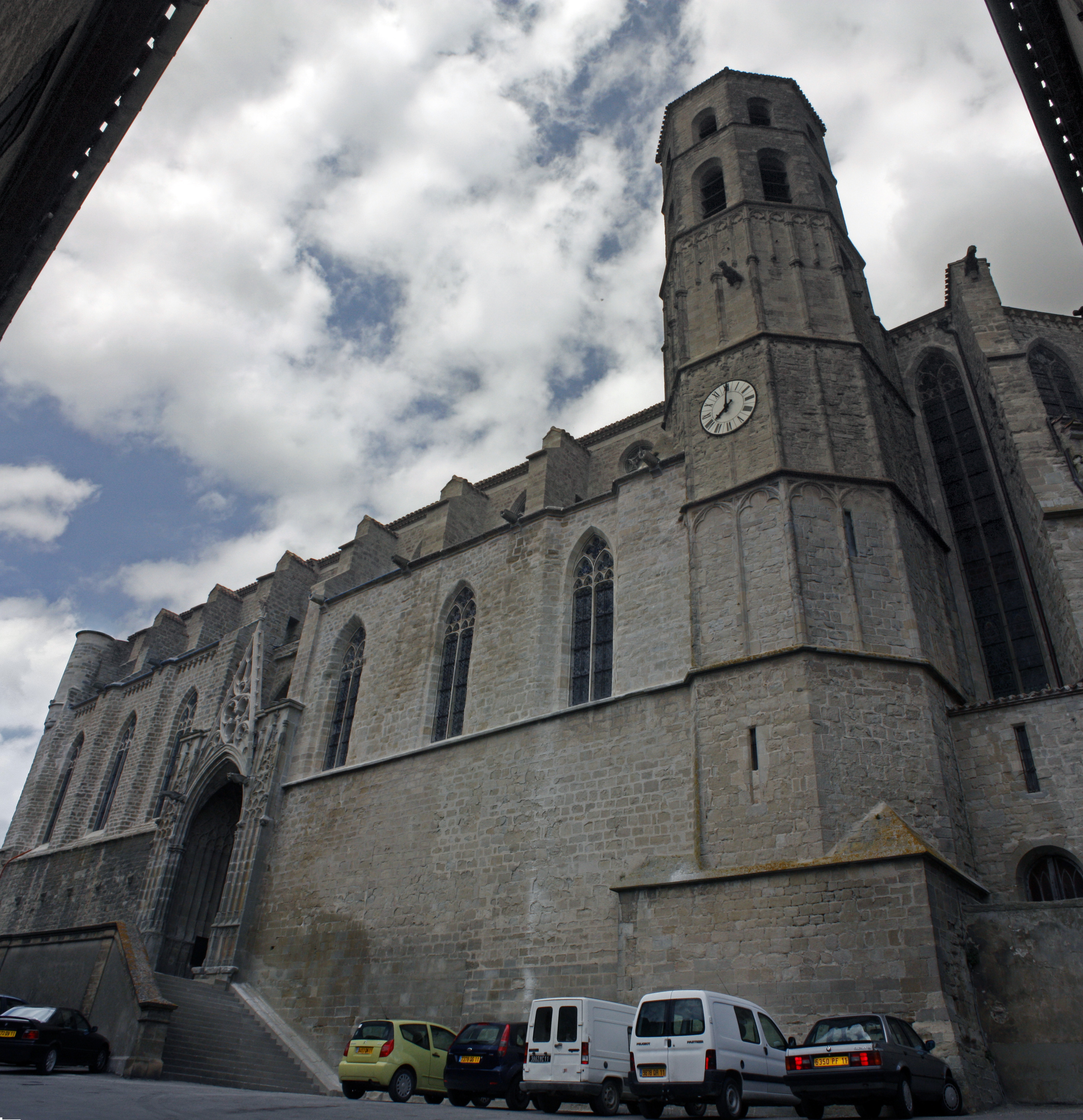 South facade of the collegiate church and its bell-tower built above the vestry.